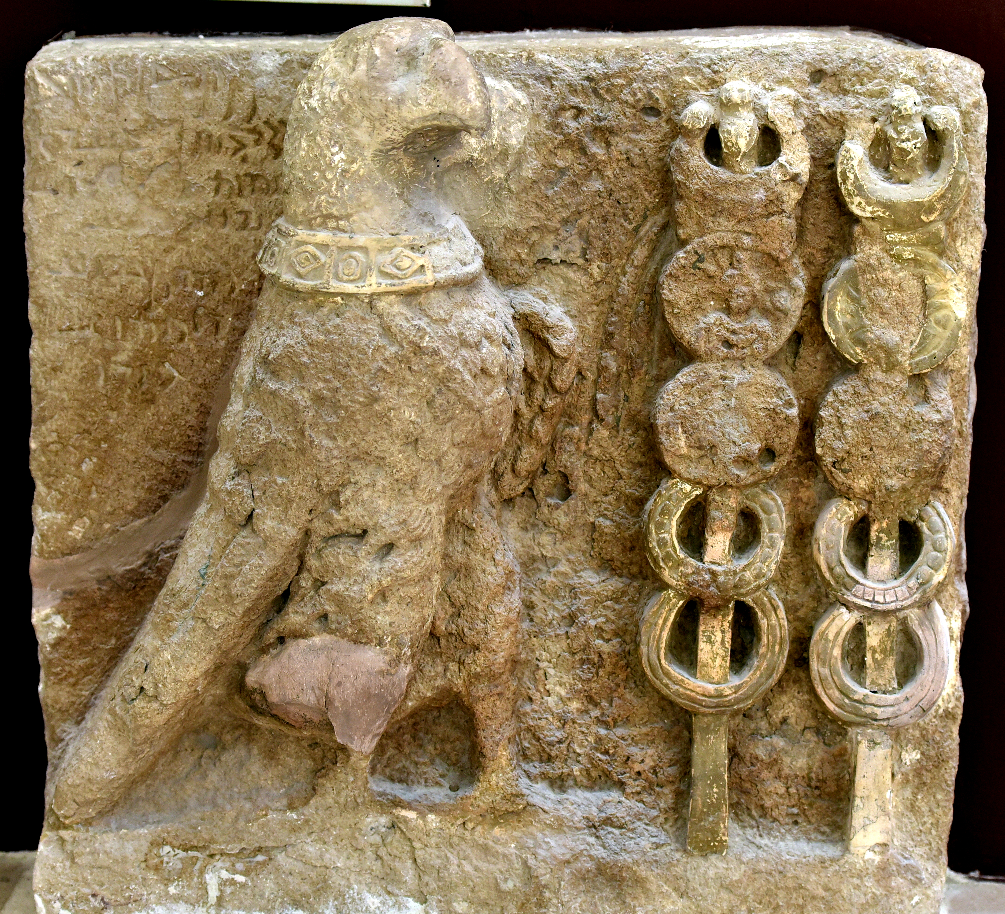 Relief of an eagle wears a necklace and stands before 2 almost identical staffs and flags; from above downward, an eagle, god Shamash in a ring, a disc, rings, and rings. From the 8th Temple at Hatra, Iraq. 2nd-3rd century CE. Iraq Museum, Baghdad, Iraq.